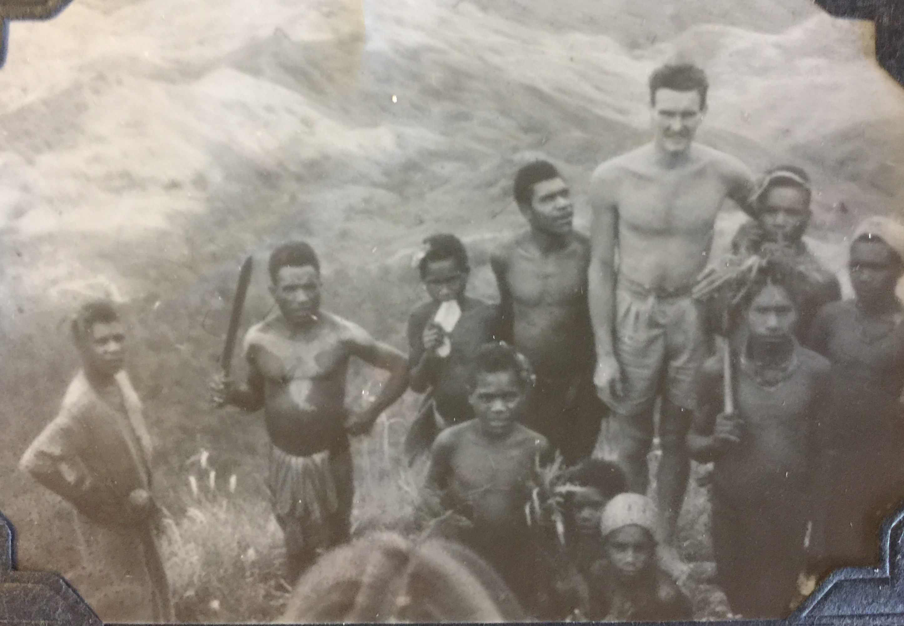 Richard Salisbury in the Highlands PNG